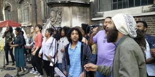 Since 2014 Soul Sanctuary Gospel Choir have sung every month at St James's Church, Piccadilly and since 2016 many of their appearances have been outside the church in the courtyard.